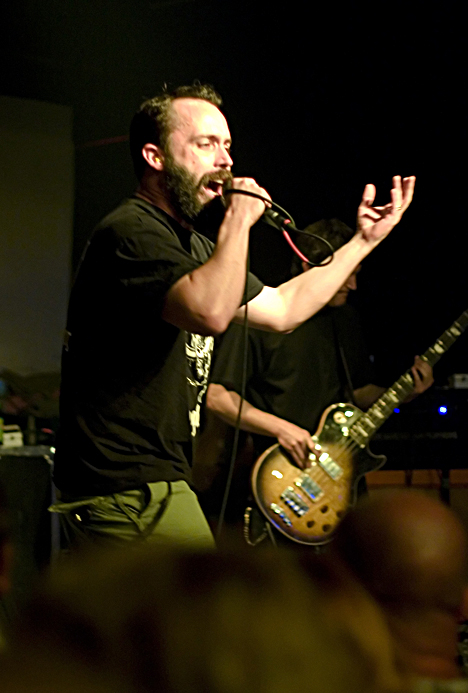 Neil Fallon, lead-singer of the American Hard Rock band, ClutchClutch